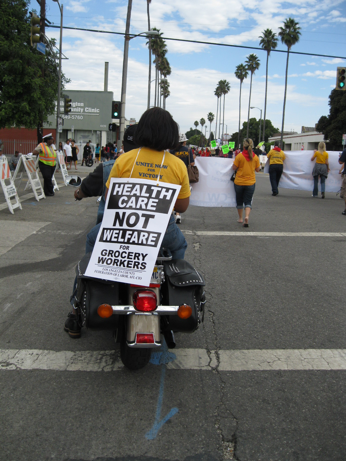 United Food and Commercial Workers (UFCW) union members rally for healthcare for grocery store workers.